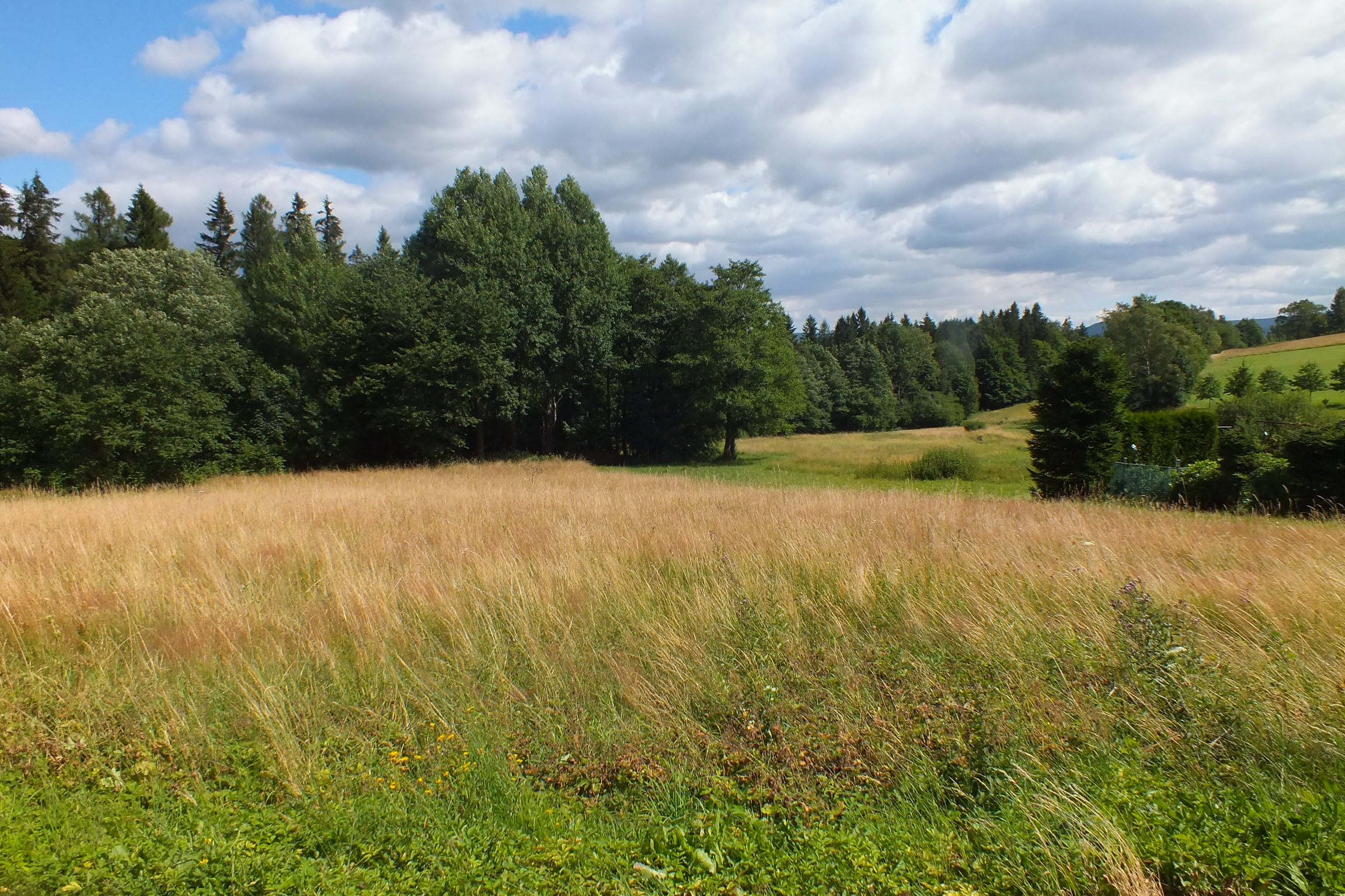 Filipovické louky, a nature reserve in Jeseníky, the Czech Republic.